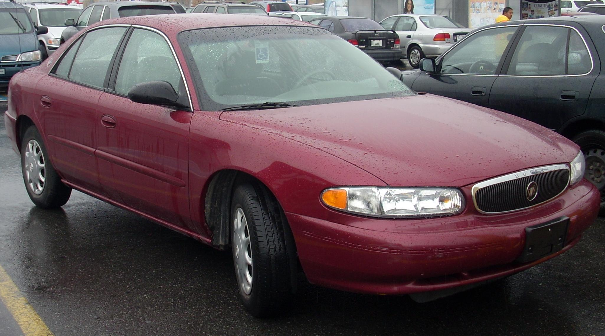 2003-2005 Buick Century photographed in Montreal, Quebec, Canada.